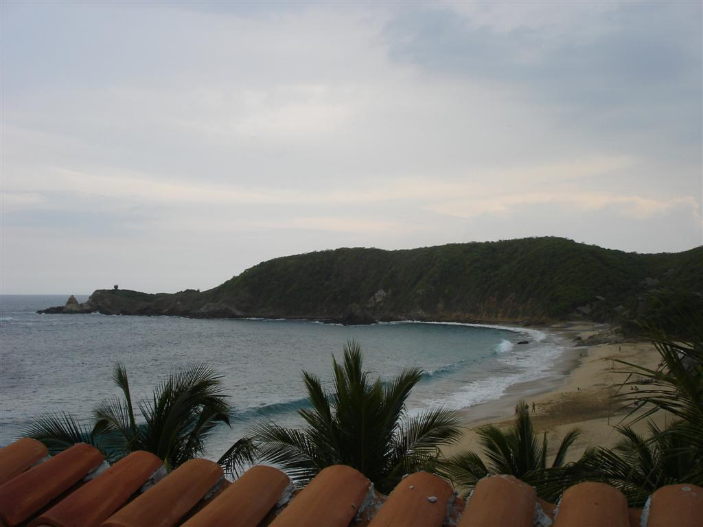 This is a picture taken while on vacation from Cabañas Ziga facing East towards Punta Cometa (on the left). The National Mexican Turtle Center is directly behind me (although it is not the entrance.)